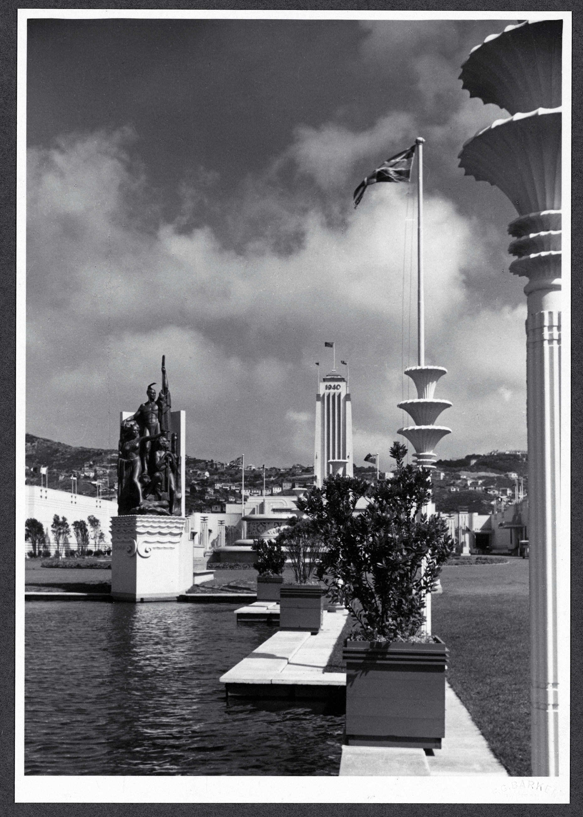 View of the Kupe Statue. The Centennial Tower can be seen in background. Photographer: F.G. Barker. (Wellington City Council archive reference: 00119:0:23)